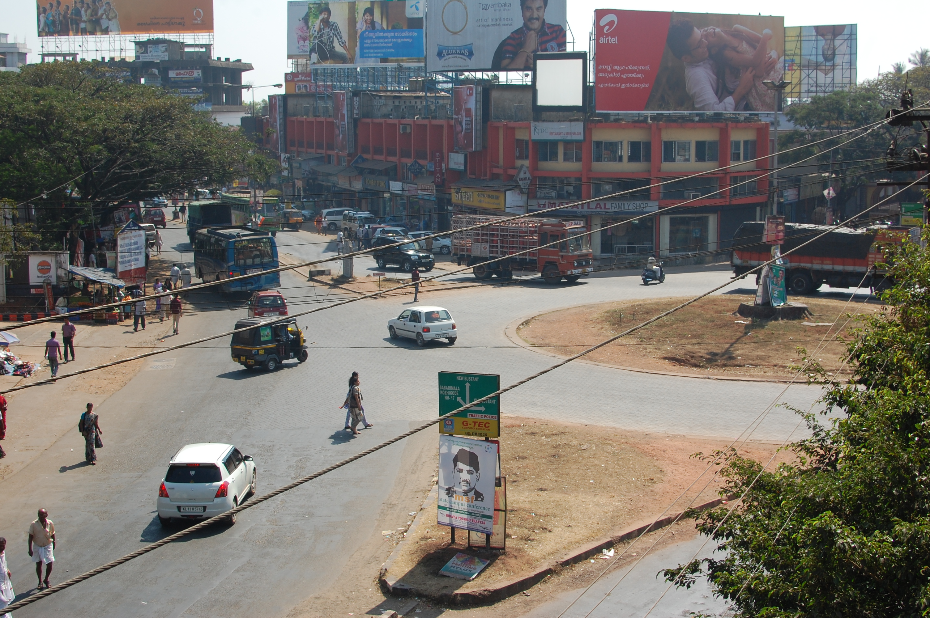 Caltex junction, Kannur